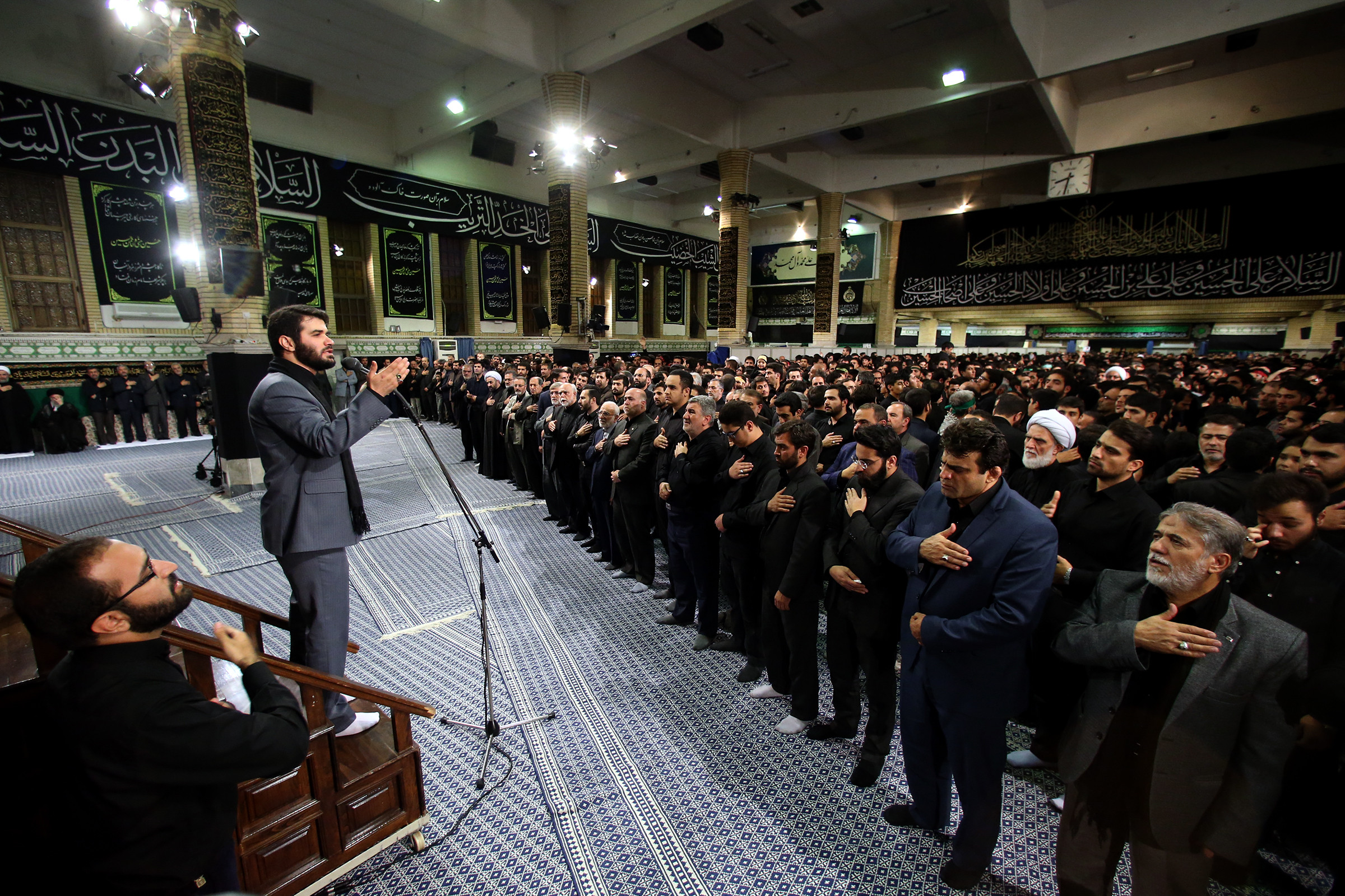 Meysam Motiee and Ayatollah Sayyed Ali Khamenei